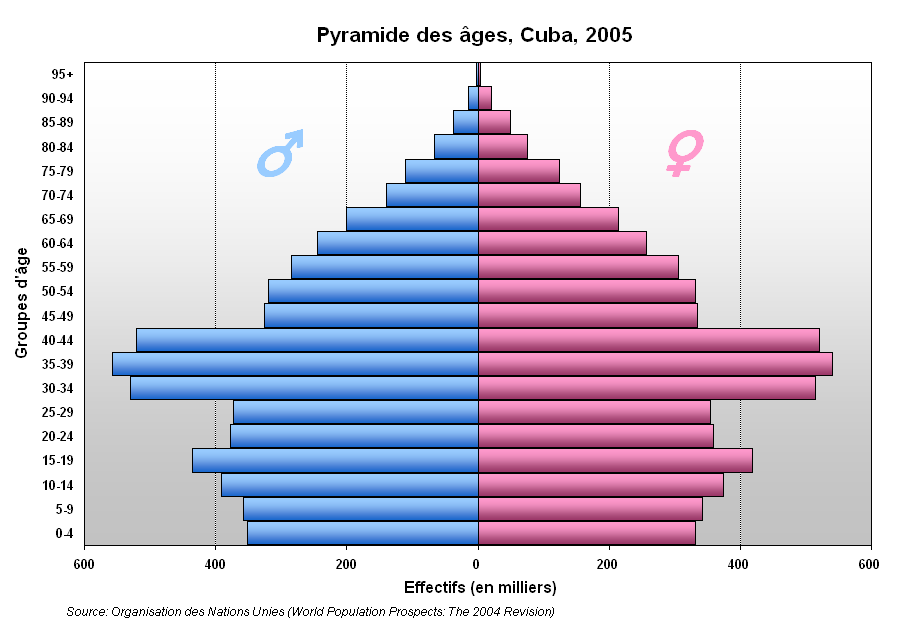 Cuba Population pyramid, 2005